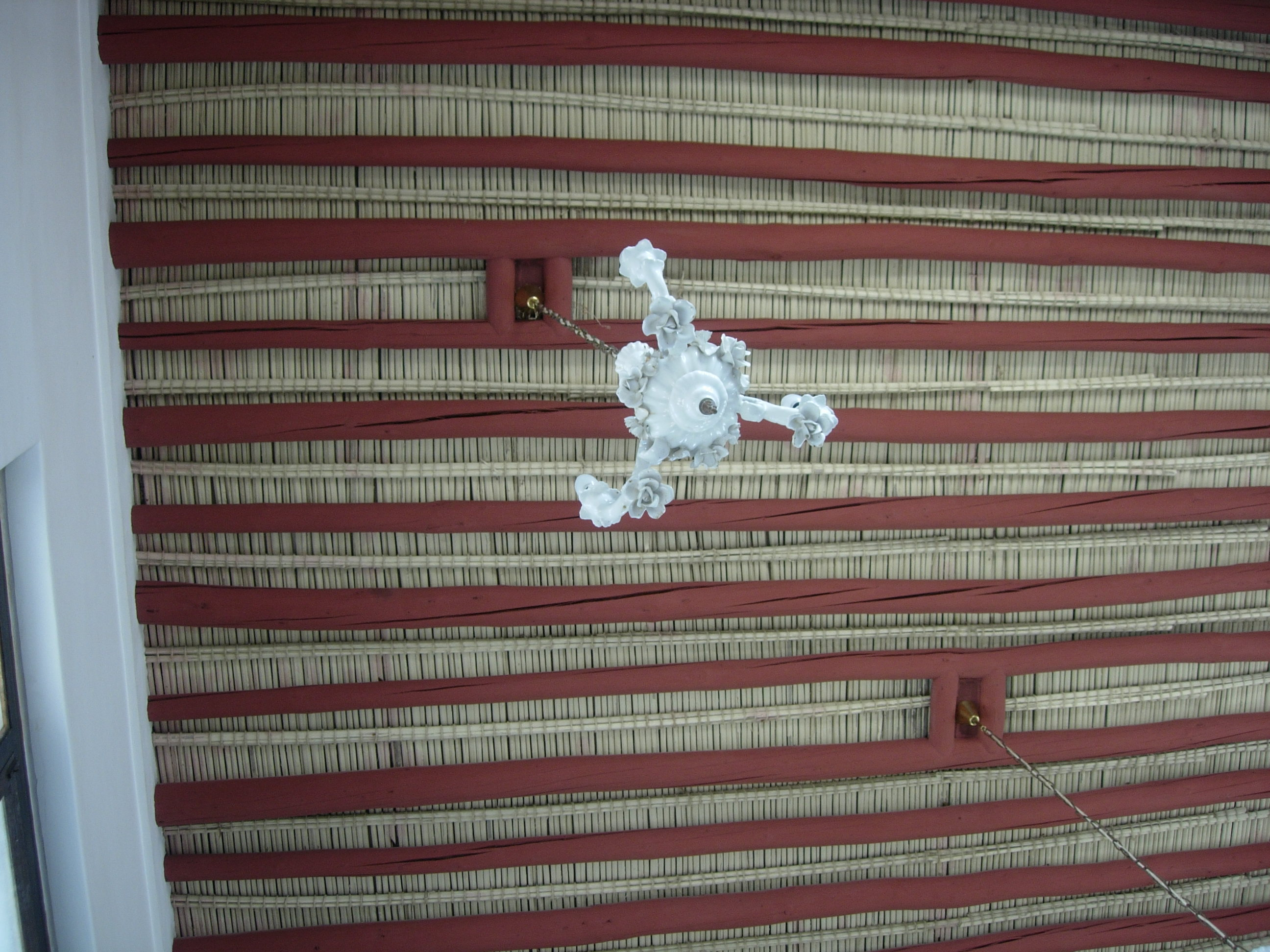 100 year old ceiling in Al Hosn Palace